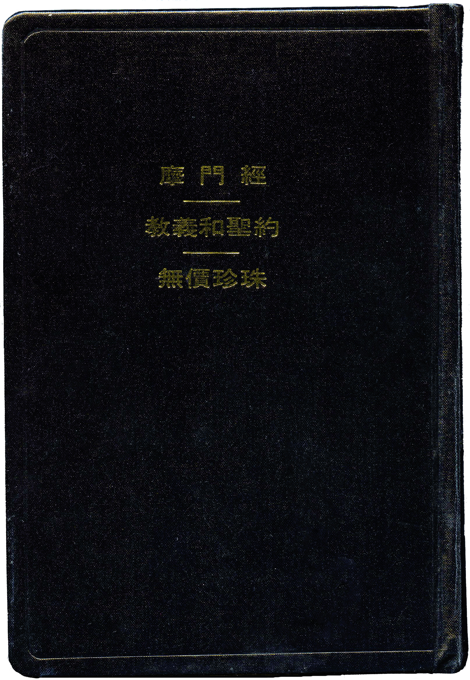 Chinese triple combination (Book of Mormon, Doctrine & Convenants, Pearl of Great Price) of the Church of Jesus Christ of Latter-day Saints 摩爾門經​, 教義和聖約​, 無價珍珠​ ( 耶穌基督後期聖徒教會 )